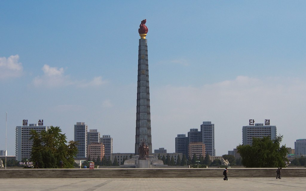 Tower of the Juche Idea Pyongyang, DPRK